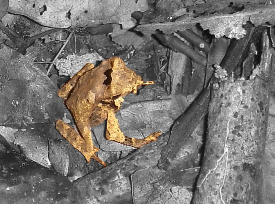 Section of original picture highlighting where the camouflaged frog is